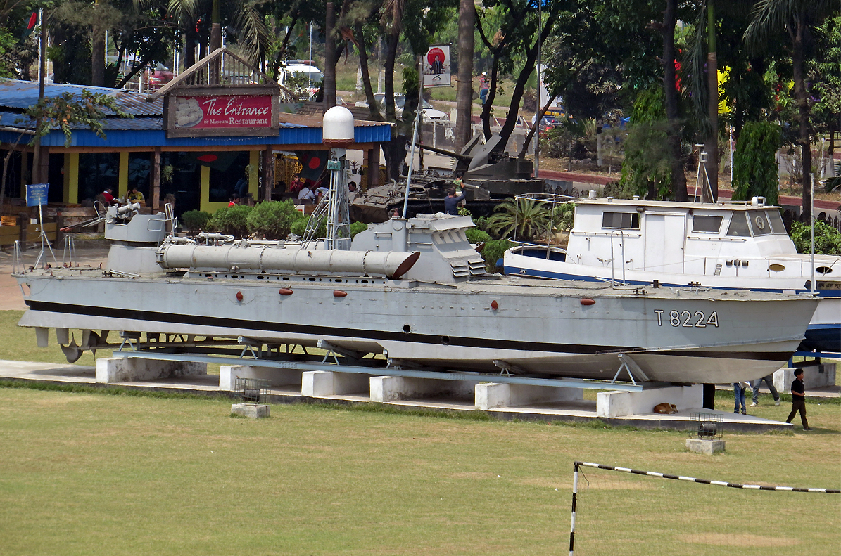 Preserved at the Army Museum, Bjoy Sarani. Four were in service.